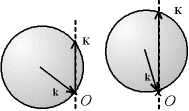 Rotation of the Ewald sphere and Bragg-Brentano geometry (direction of the diffraction vector fixed).